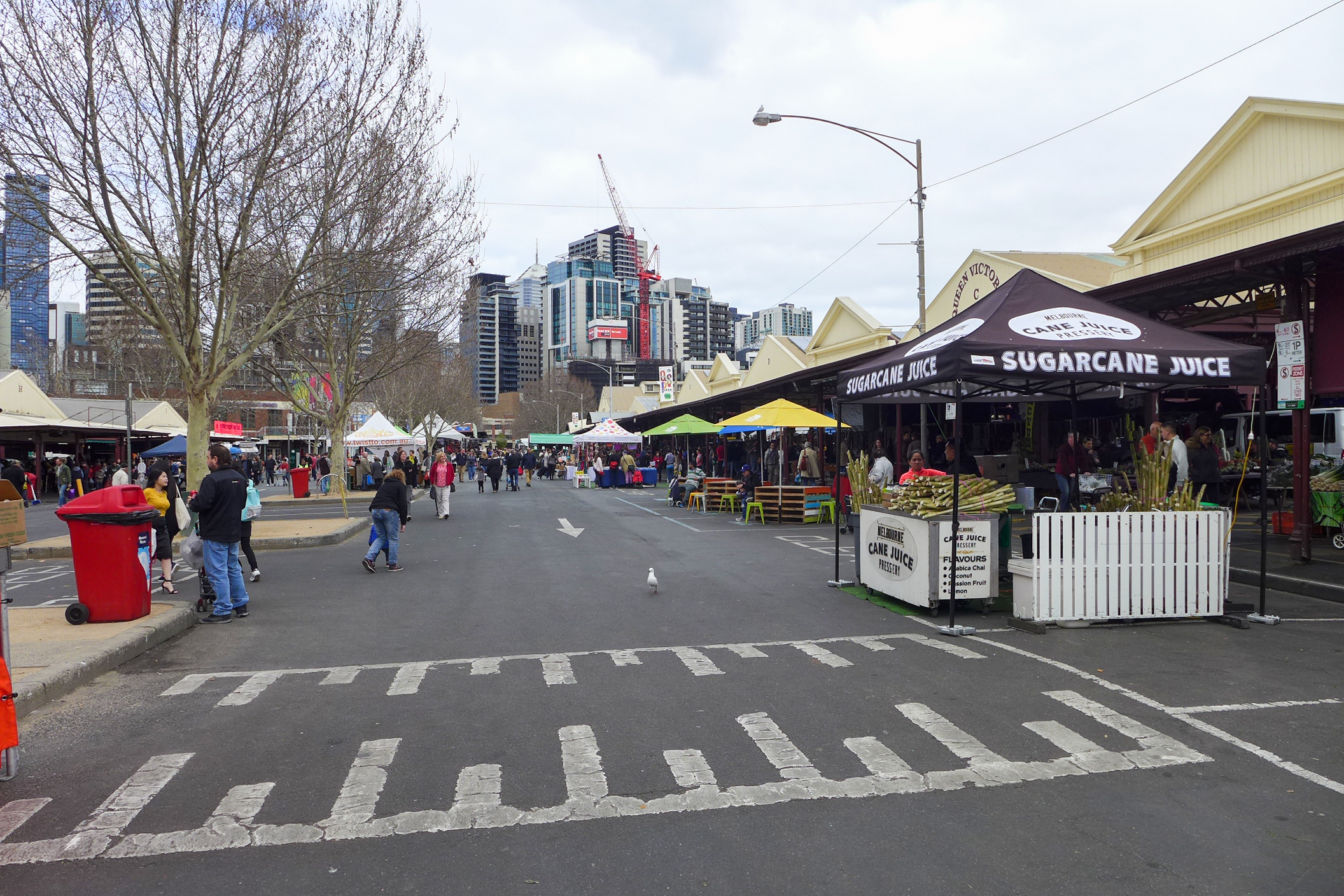 Queen Victoria Market